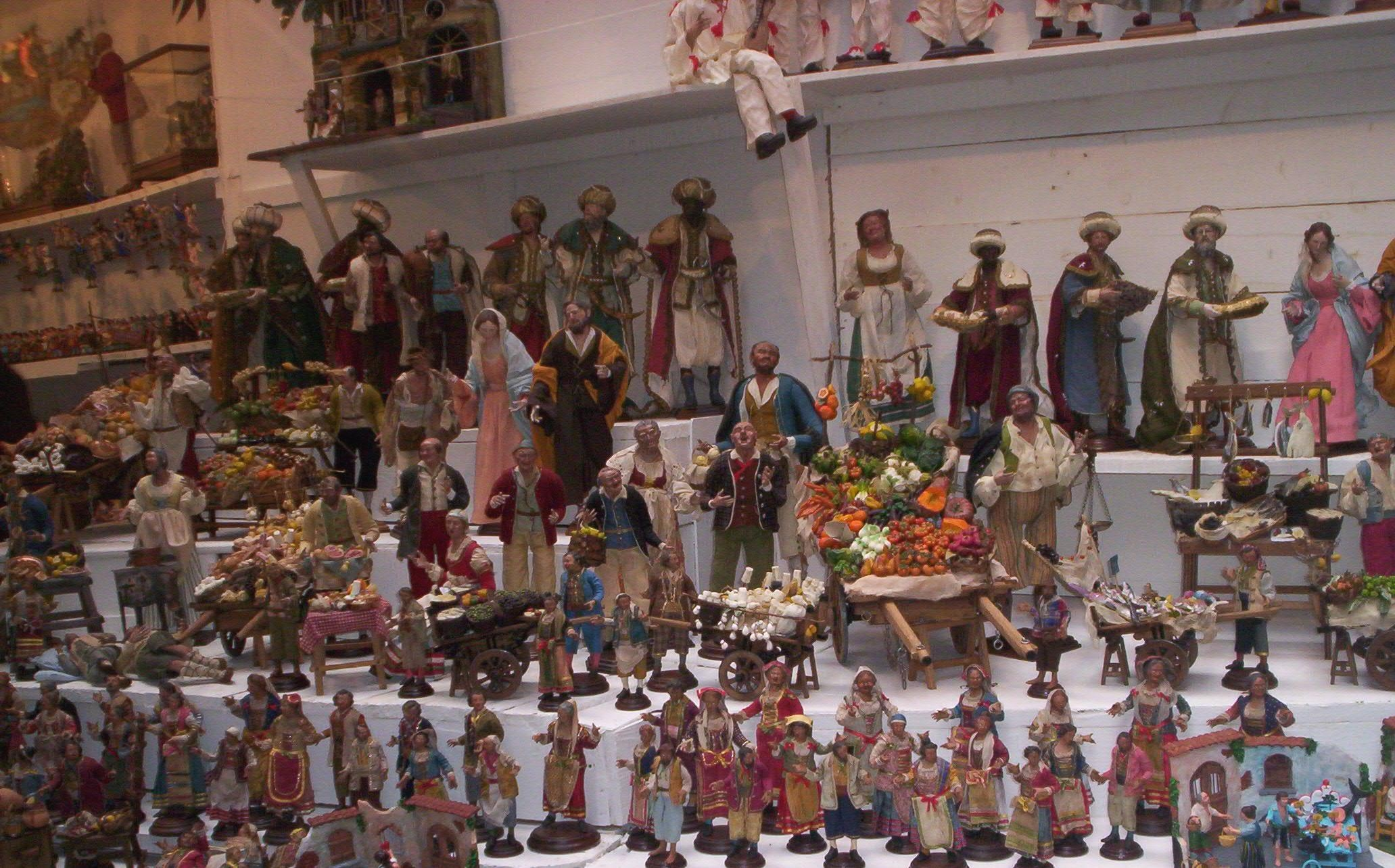 Created on 14 December 2005